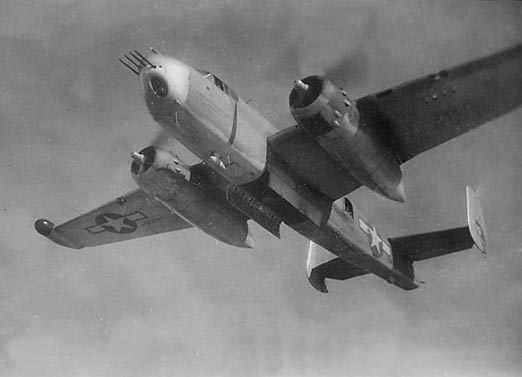 A North American PBJ-1H Mitchell bomber of U.S. Marine Corps bomber squadron VMB-613 with its bomb bay doors open. Note the four 12.7 mm machine guns and the 75 mm cannon in the nose, and the AN/APS-3 radar in the right wingtip.